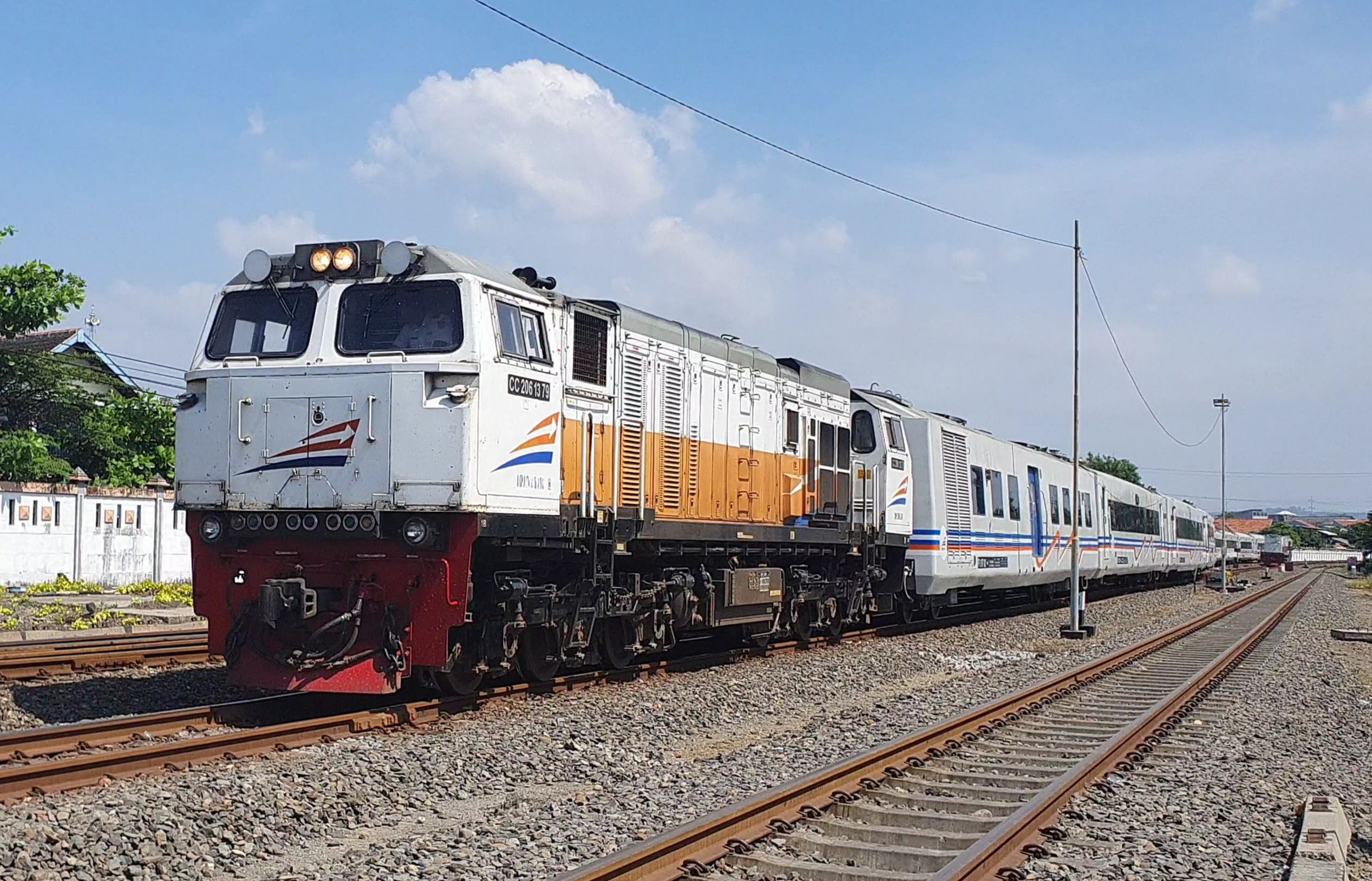 Argo Muria Bogie K9